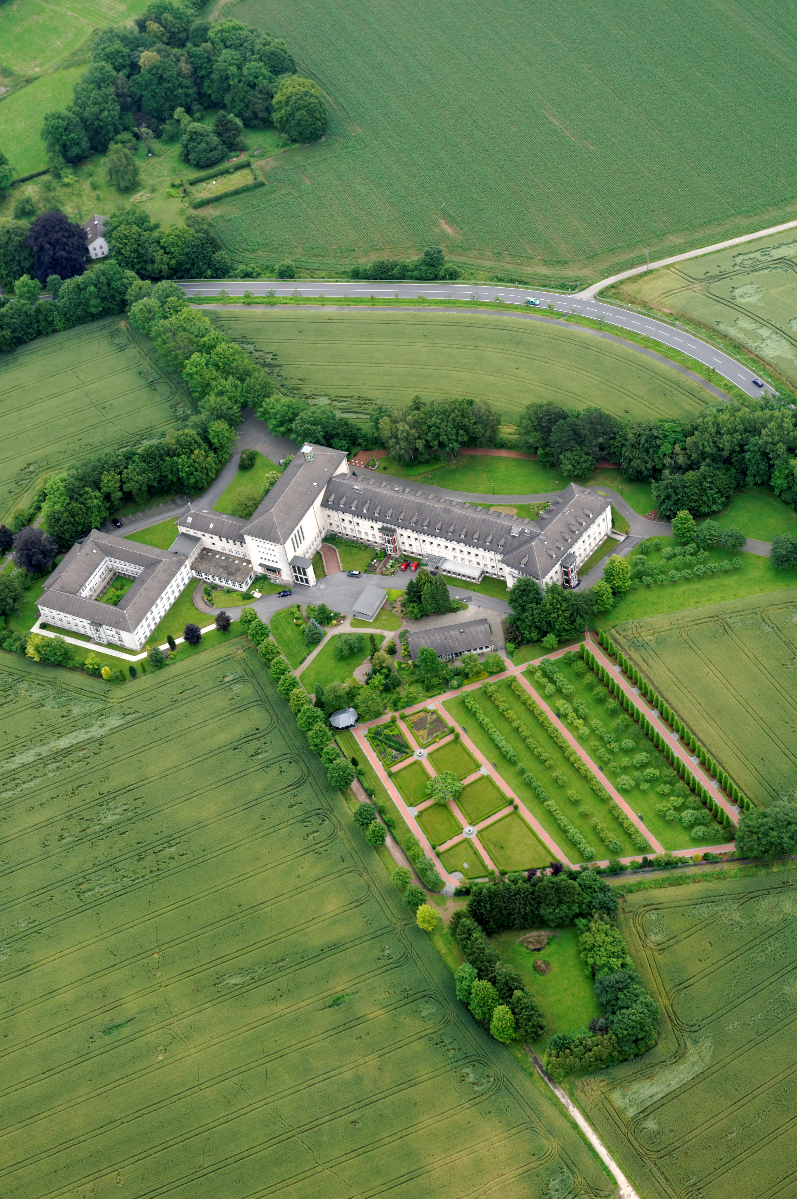 Fotoflug Sauerland Nord, Heilig-Geist-Kloster der Steyler Missionarinnen in Wickede-Wimbern The making of this document was supported by the Community-Budget of Wikimedia Germany.